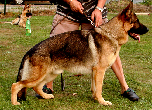 German Shepherd Dog "Bär vom Schloß Buldern", 11 months.